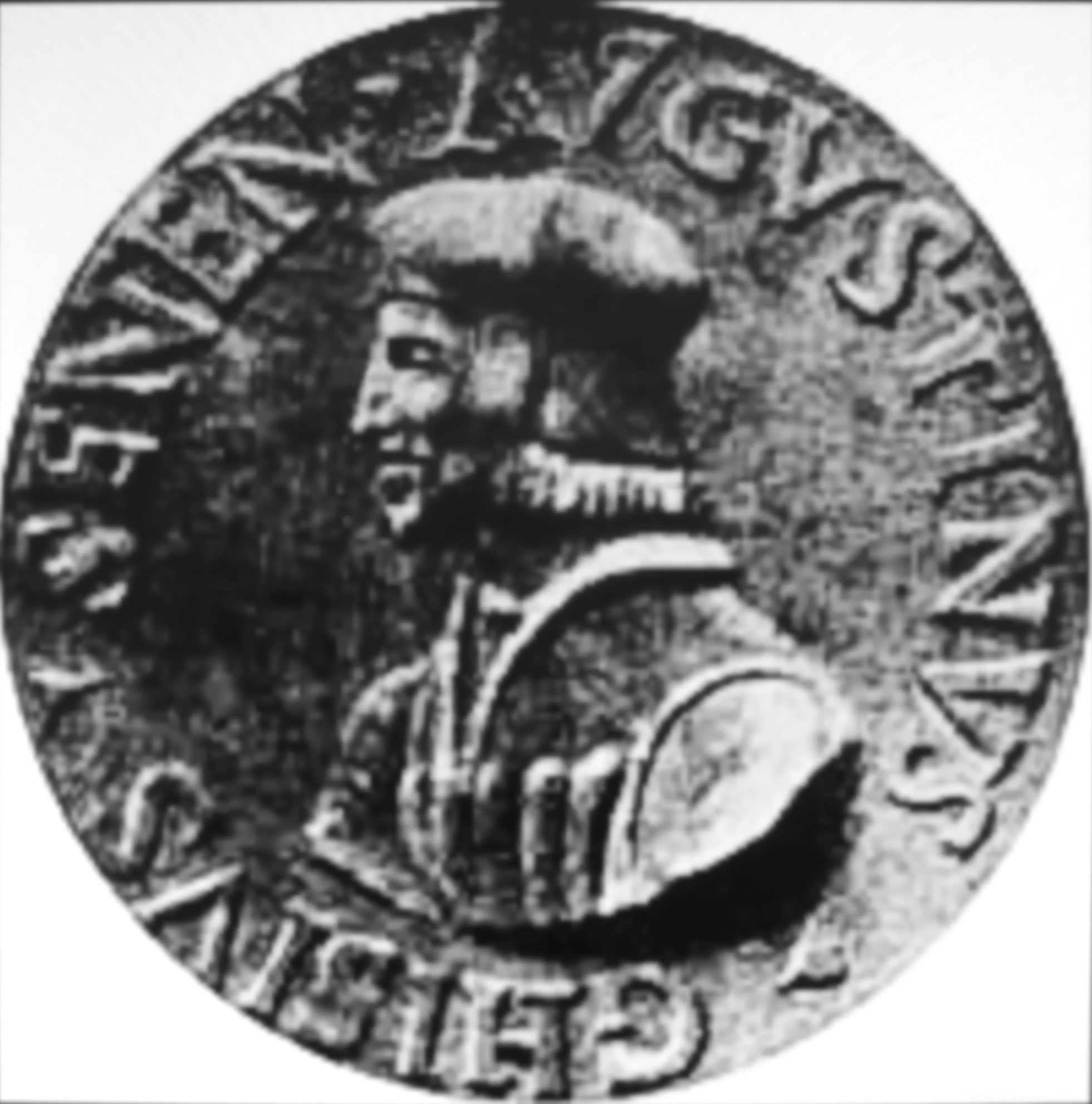 Coin with Portrait of Agostino Chigi